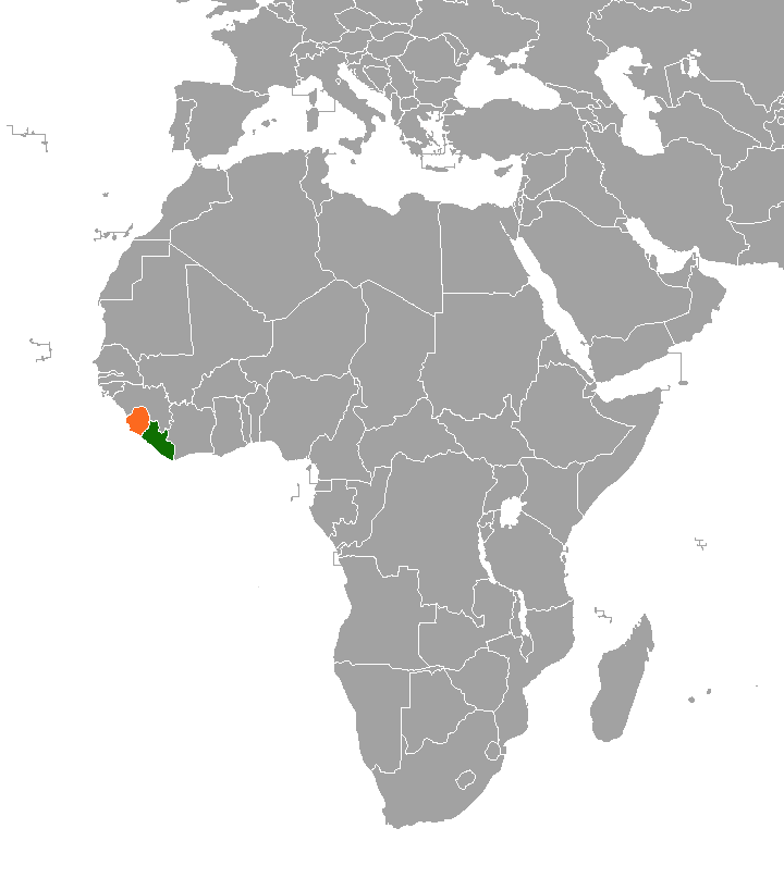 Locator map for Sierra Leone and Liberia.